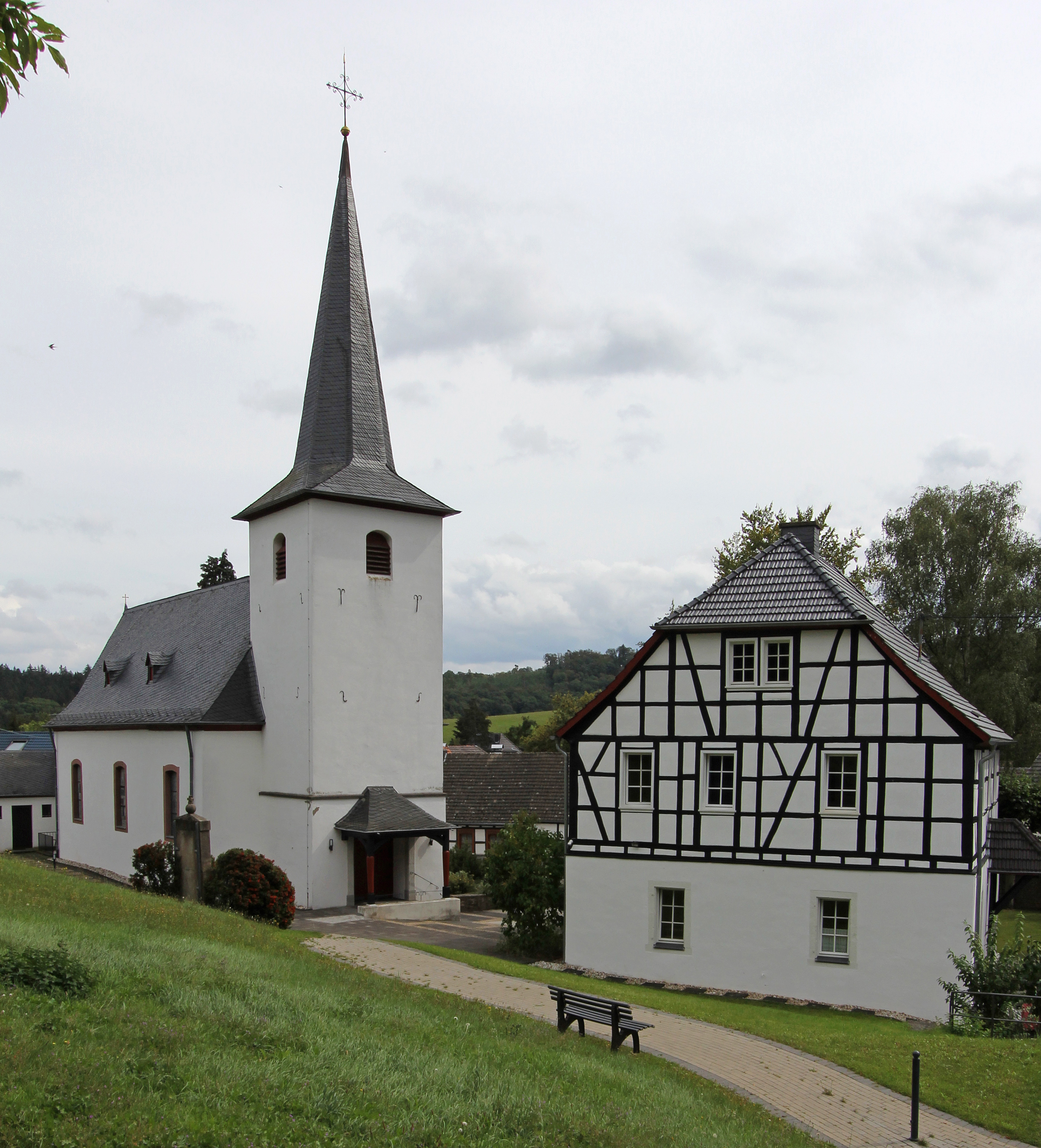 Neukirchen (Rheinbach), Neukirchener street 16, catholic parish church “Saint Margaretha” and parish house backside